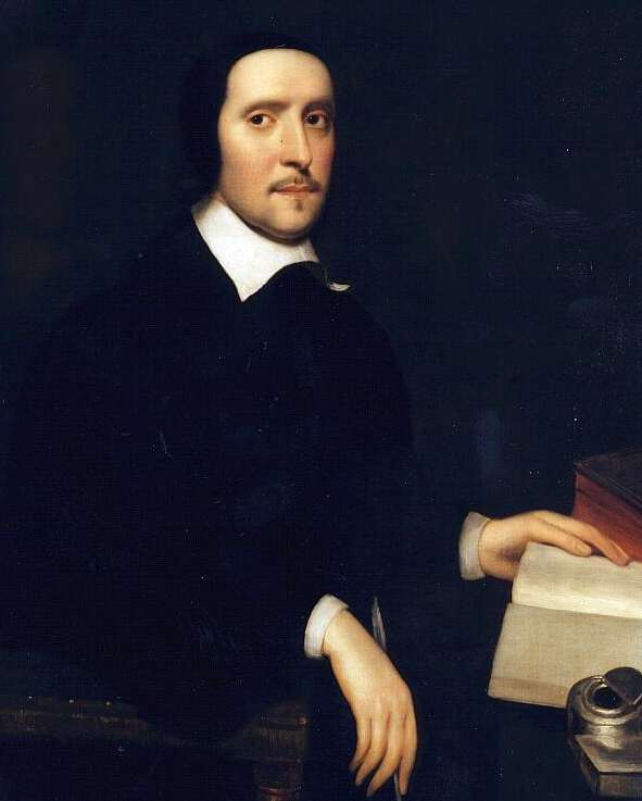 Cropped image